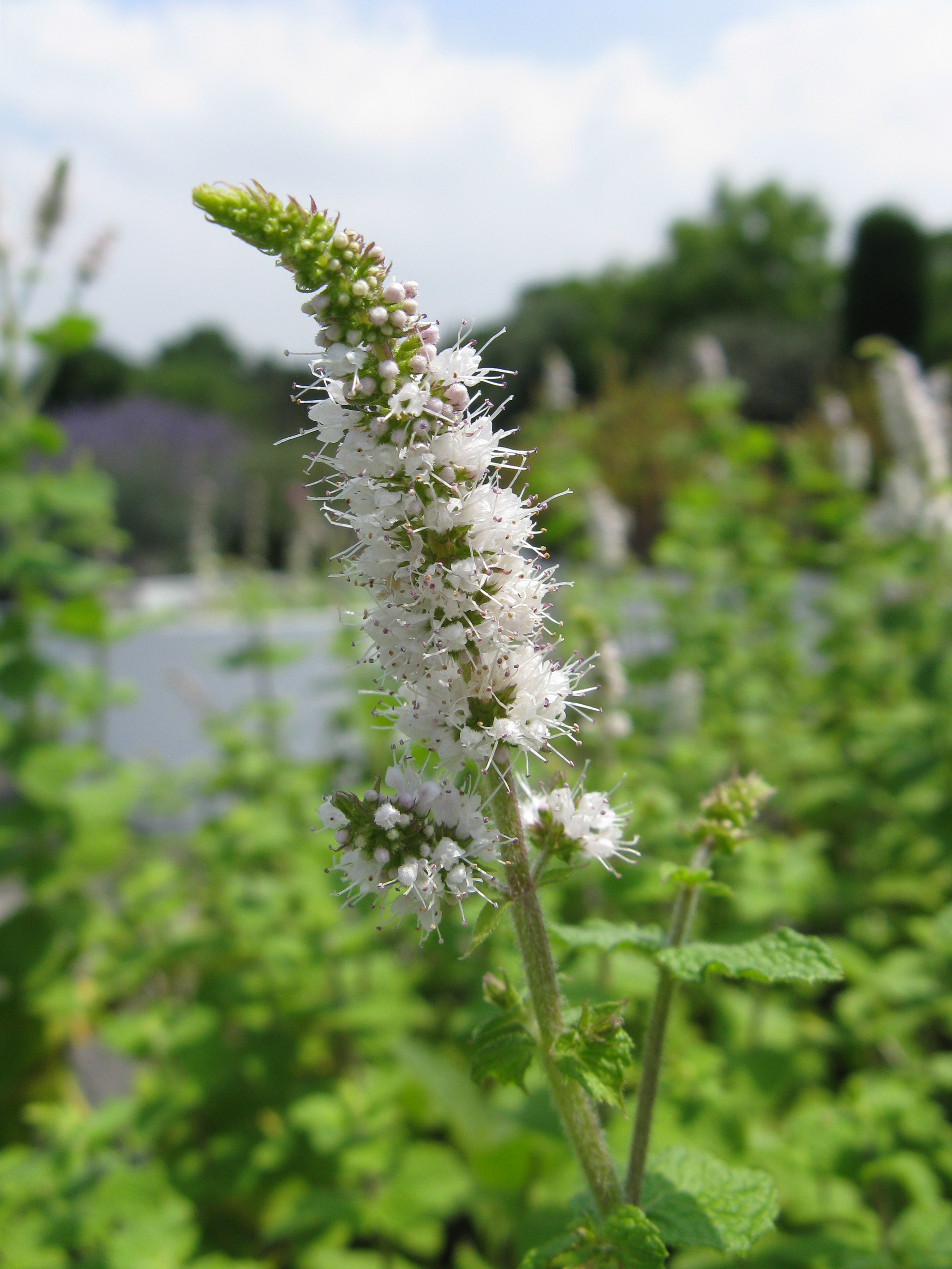 Scientific name Mentha suaveolens Place:Osaka,Japan